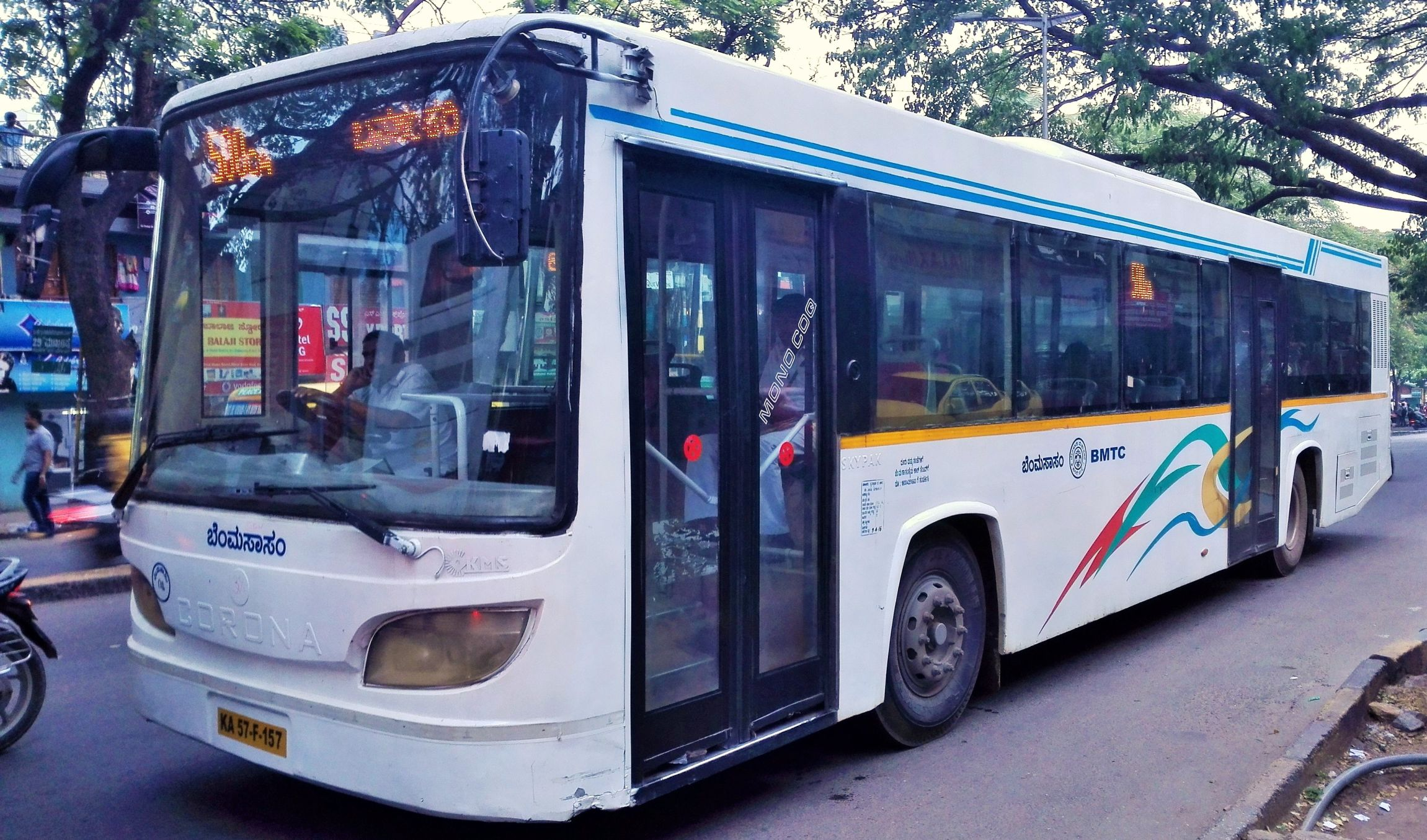 BMTC's Corona Bus.